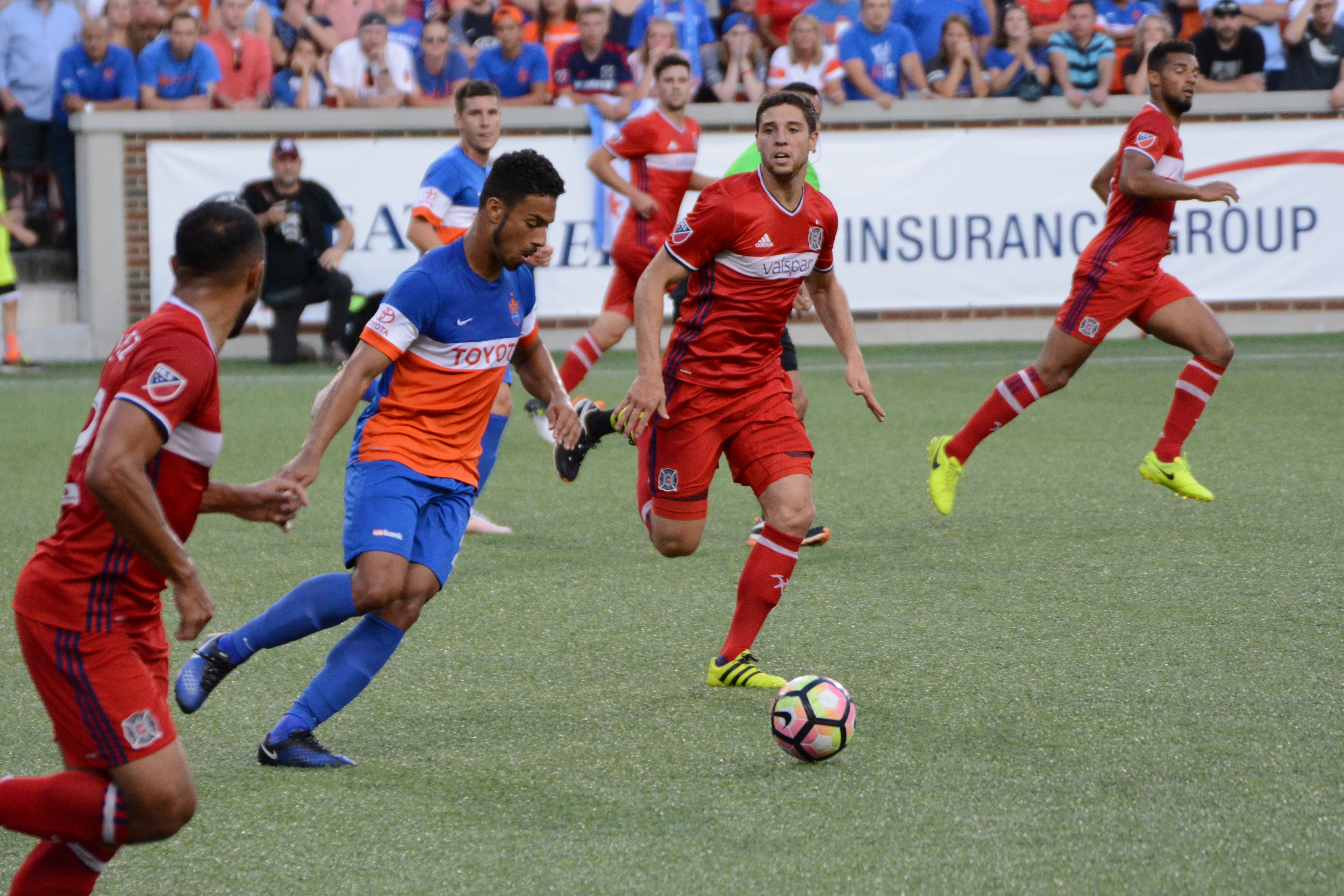 Taken at a U.S. Open Cup match between FC Cincinnati and Chicago Fire SC at Nippert Stadium in Cincinnati, Ohio on June 28, 2017.